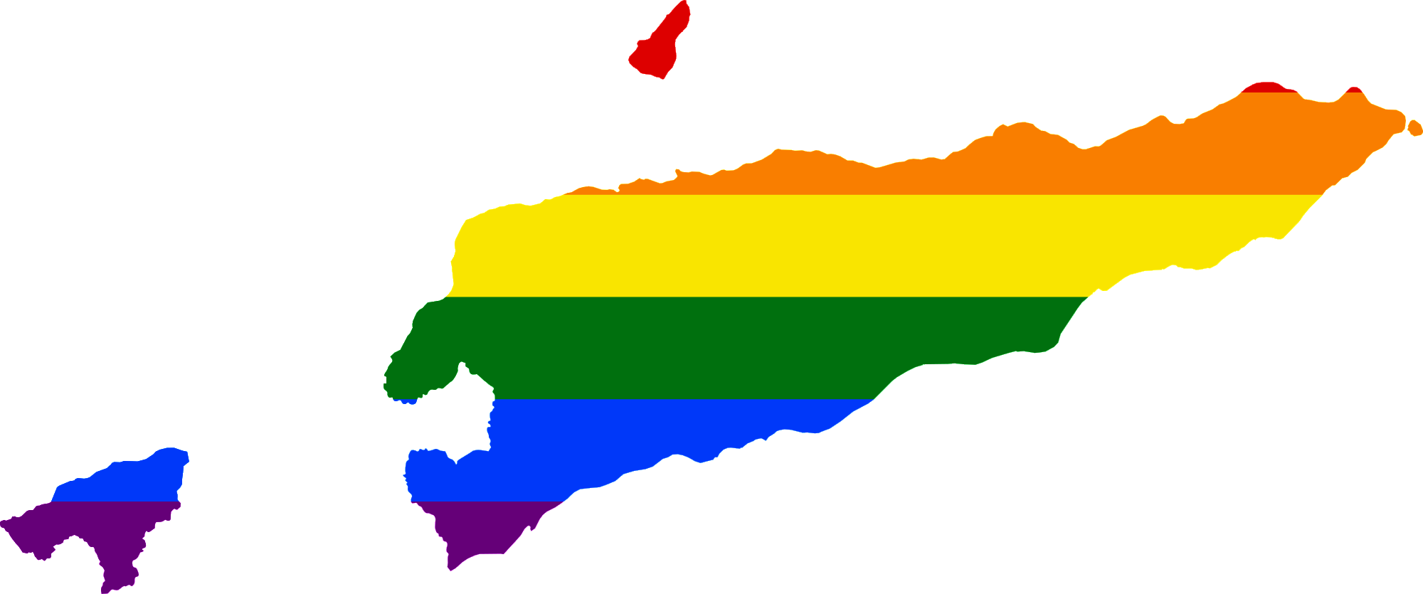 LGBT flag map of East Timor